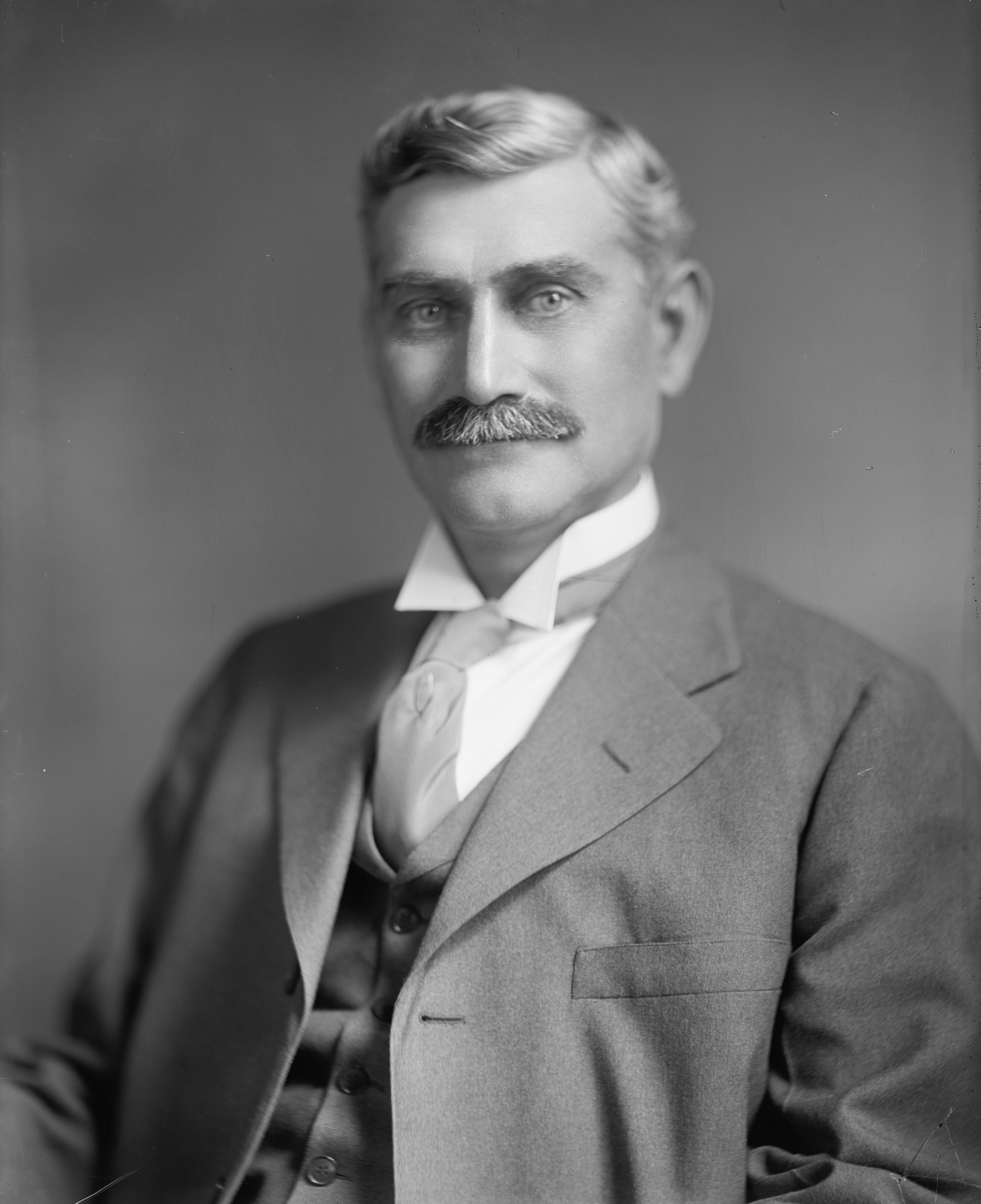 Title: HIGHTOWER, G.R., HONORABLE Abstract/medium: 1 negative : glass ; 8 x 10 in. or smaller